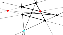 Papp-Brianshon thm